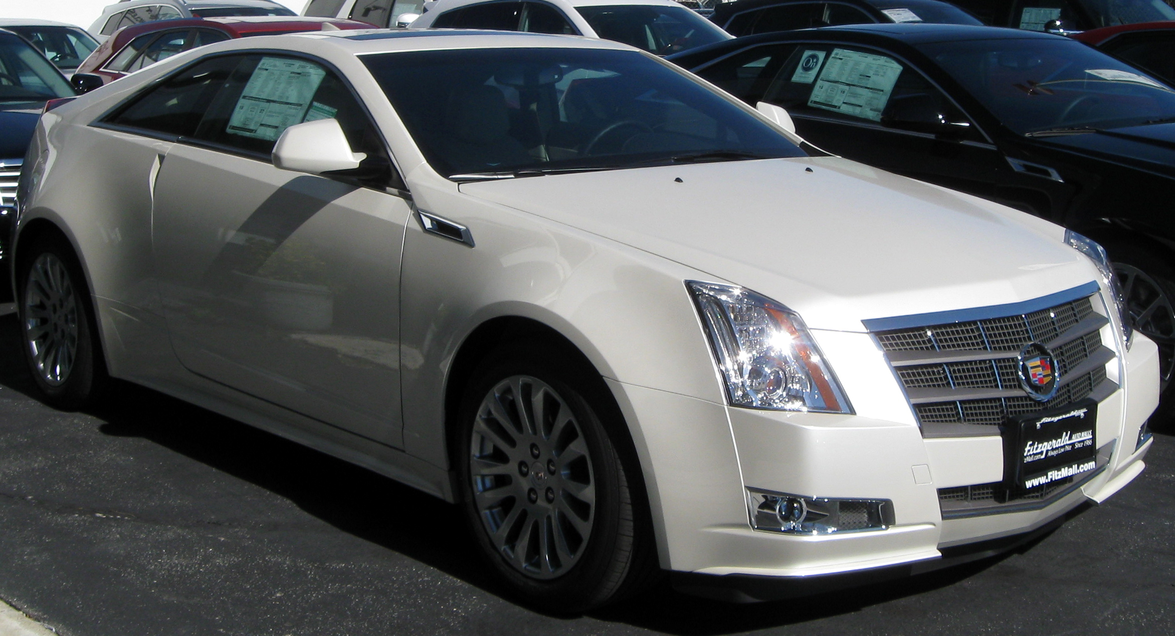 2011 Cadillac CTS photographed in Annapolis, Maryland, USA.